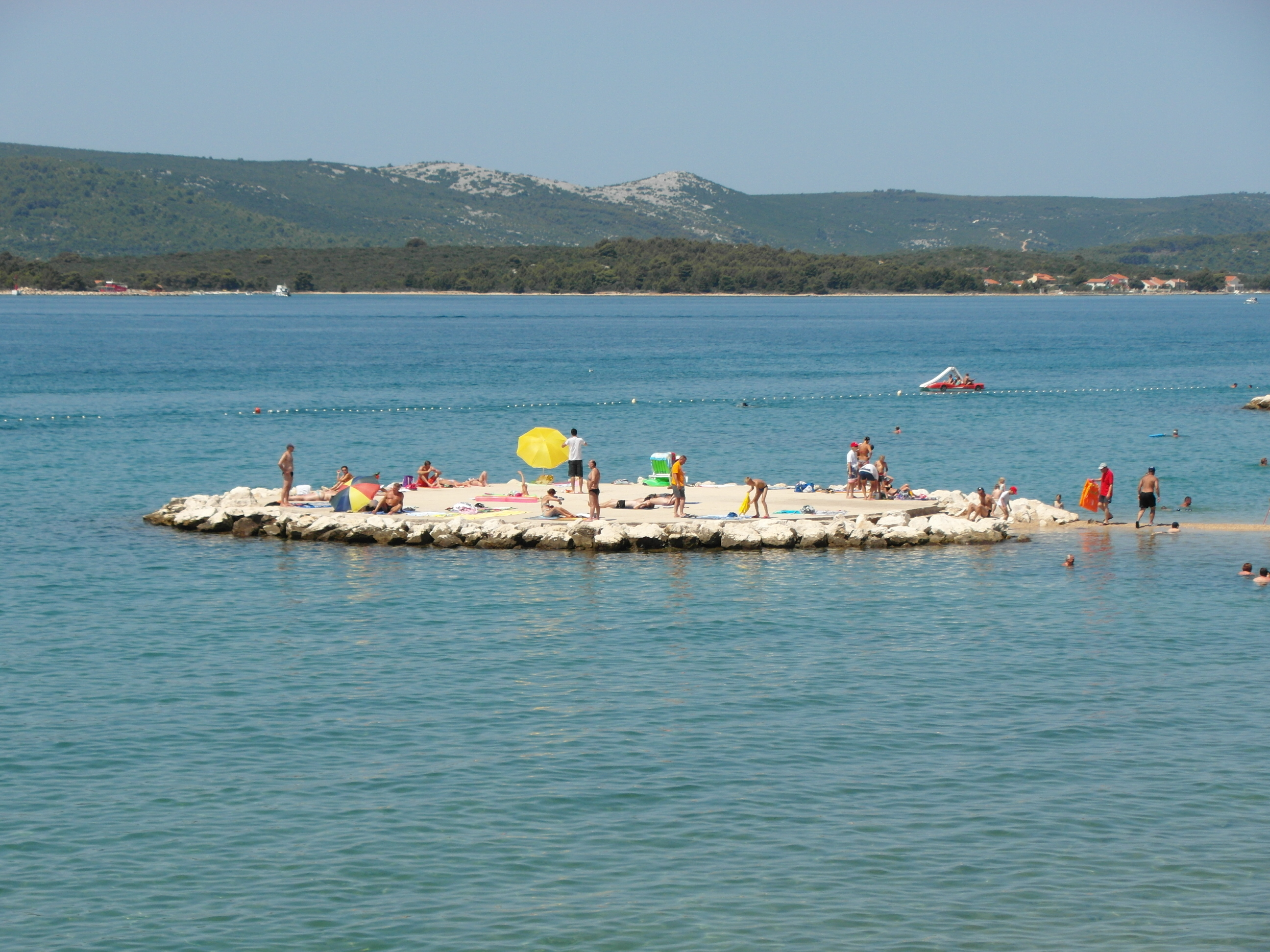 Island as a beach, Sveti Filip i Jakov.